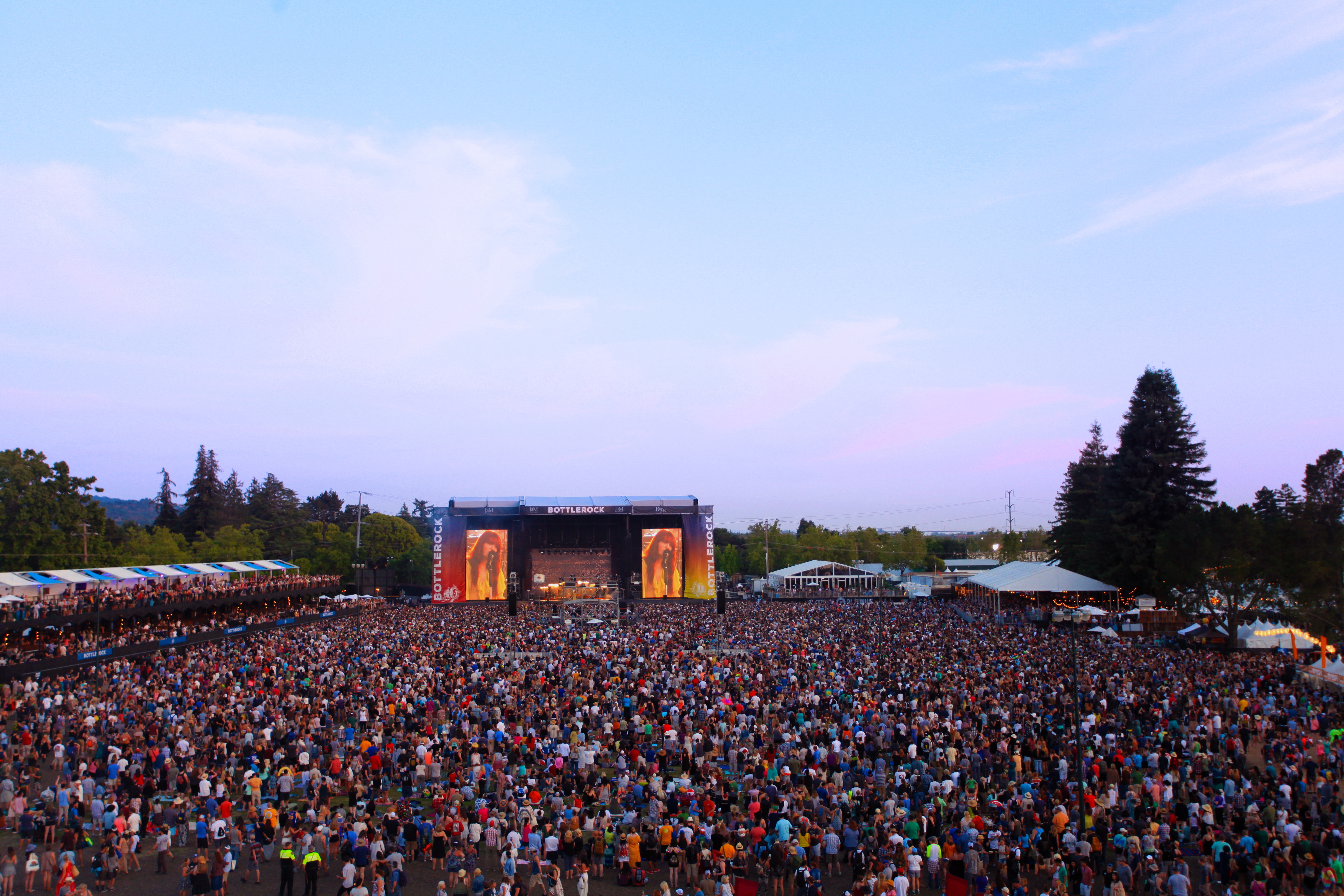 BottleRock 2016 Main Stage